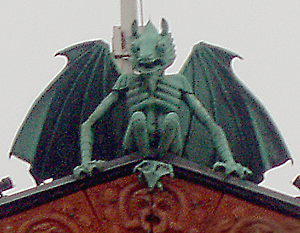 Figure on the top of Aarhus Teater, Denmark